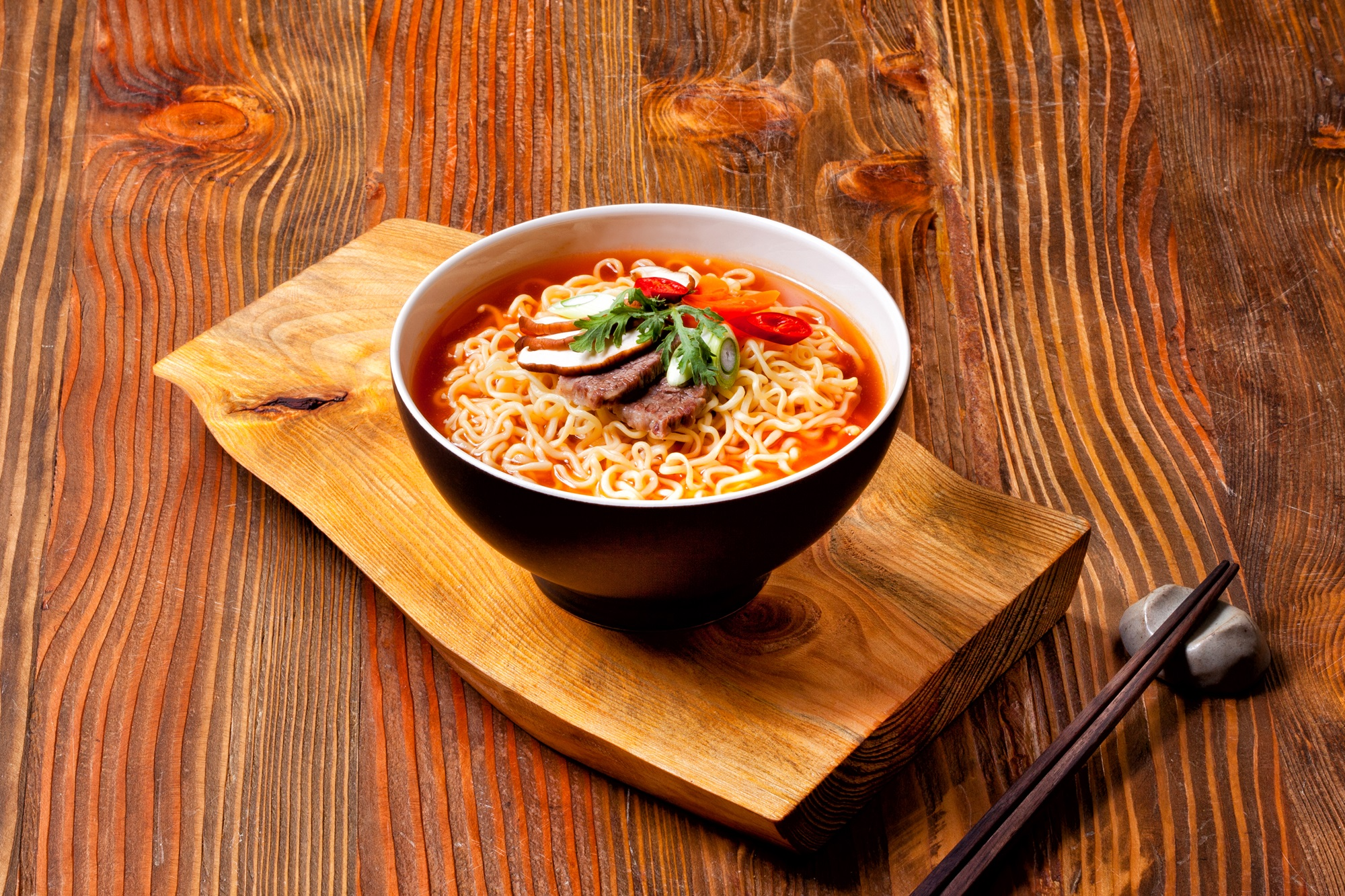 A bowl of Shin Ramyun